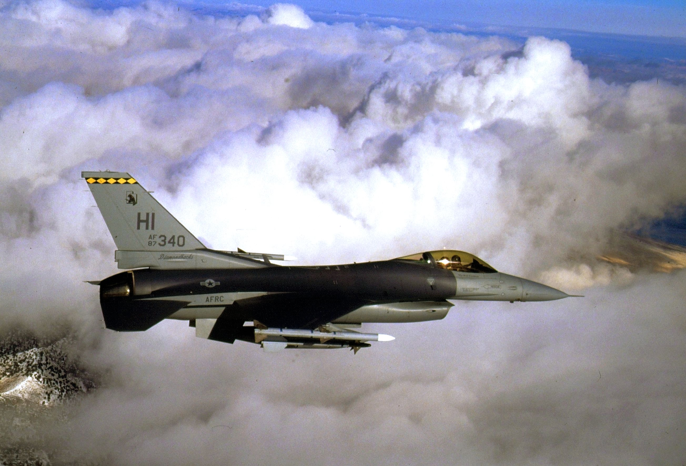 The 419th Fighter Wing, Hill Air Force Base, Utah was the first Reserve unit to fly the F-16 Fighting Falcon and the only Air Force Reserve unit in Utah. The mission of the wing is to provide gaining commands a ready, fighting force through recruiting, equipping and training for worldwide combat. The F-16 Fighting Falcon is a compact, multi-role fighter aircraft. It is highly maneuverable and has proven itself in air-to-air combat and air-to-surface attack. It provides a relatively low-cost, high-performance weapon system for the United States and allied nations.